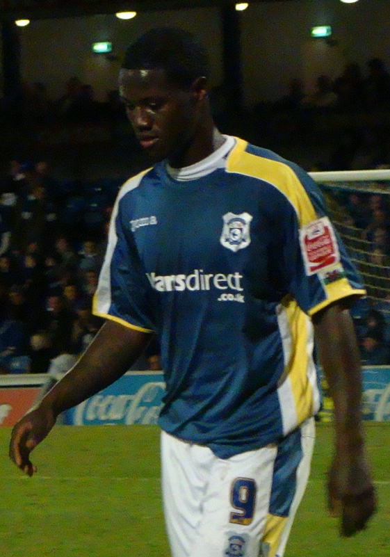 08/04/09 Ninan Park, Cardiff V Derby